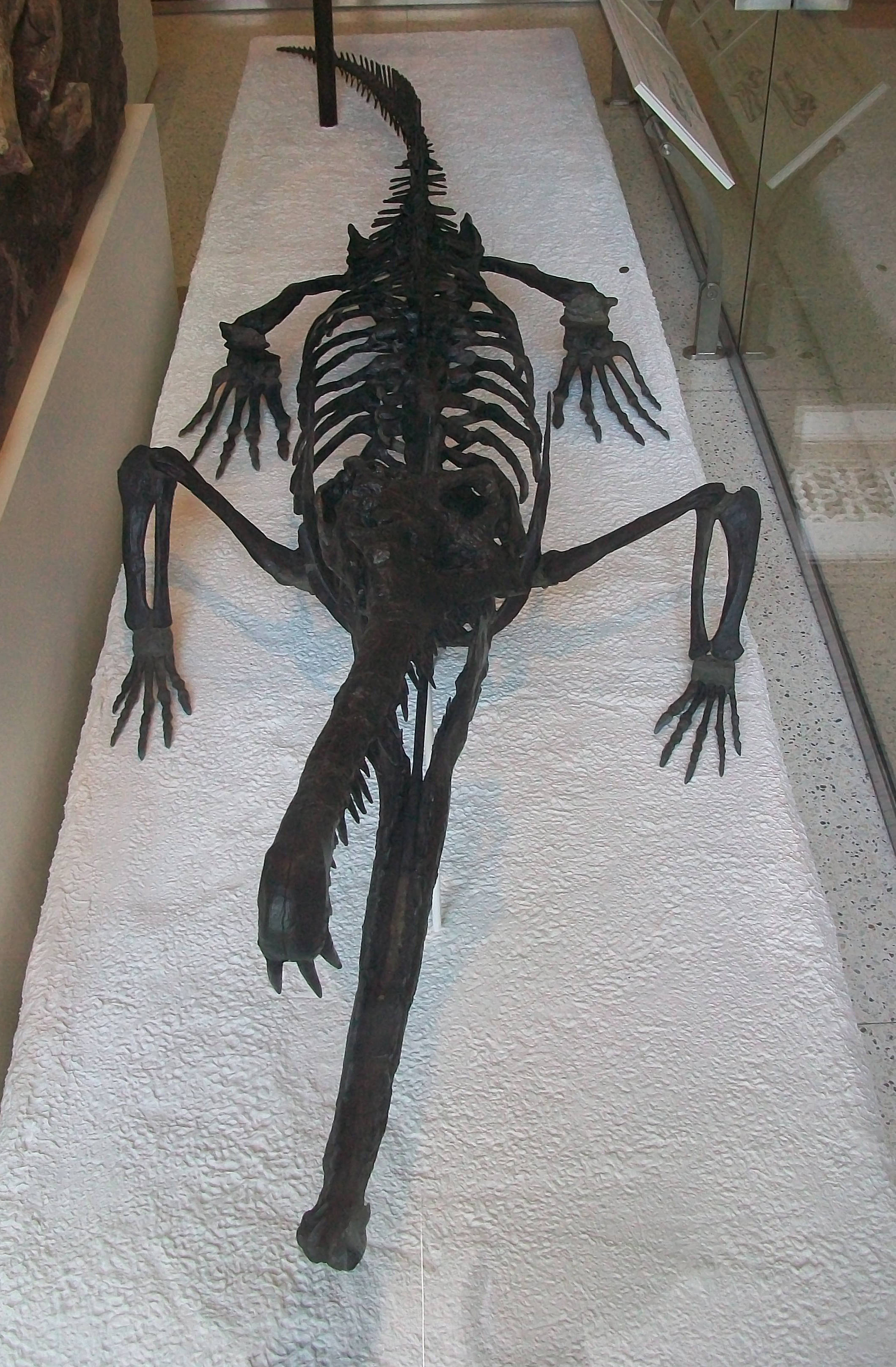 Front view of a skeleton of Rutiodon carolinensis (AMNH 1) in the American Museum of Natural History.